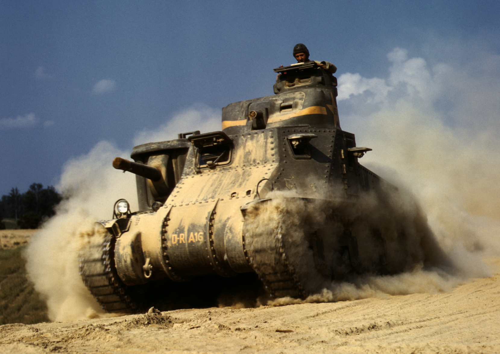 M3 tank, training exercises, Fort Knox, Kentucky.